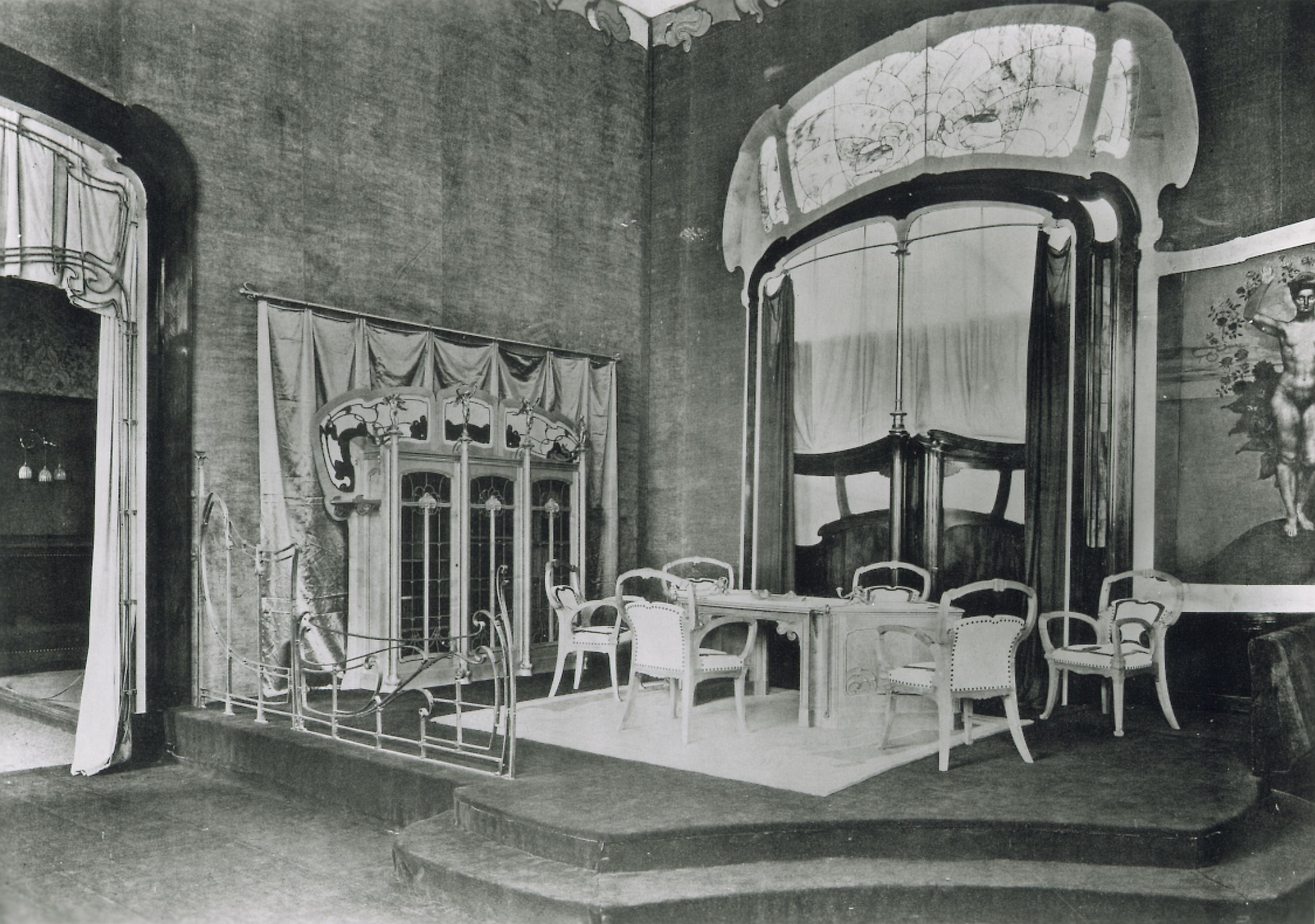 Furnishing for decorative arts fair 'la Prima Esposizione Internazionale d'Arte Decorativa Moderna' by Victor Horta, collection Hortamuseum